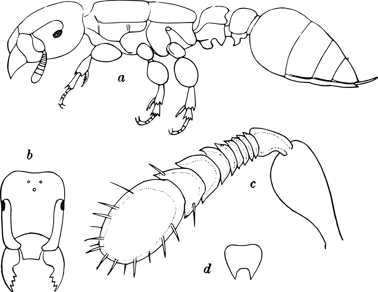 Metapone greeni a) worker b) head of same from above c) antenna of same d) scutellum of male from above